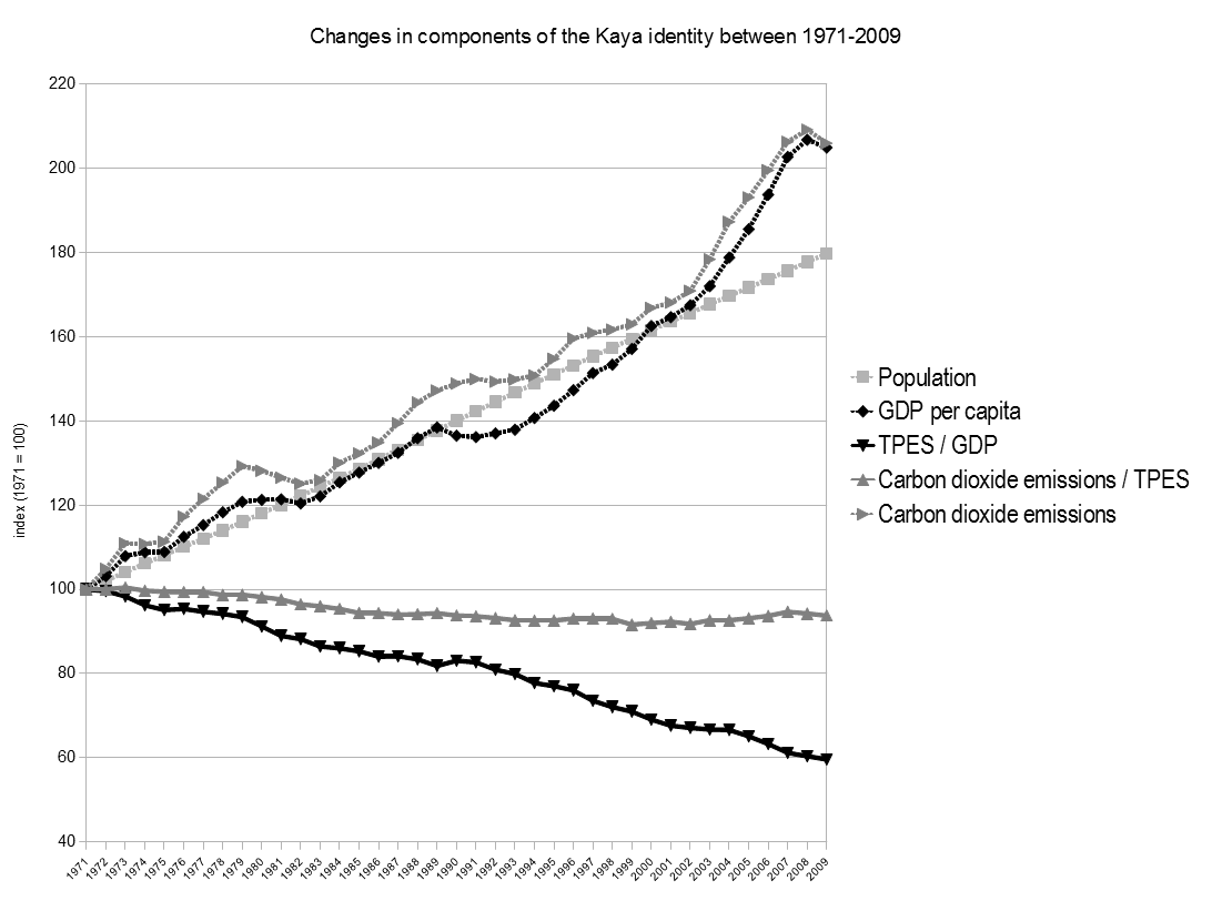 This graph shows changes in the components of the Kaya identity between 1971-2009. The graph shows changes in global energy-related carbon dioxide emissions between 1971-2009. Also plotted are changes in world population, world gross domestic product (GDP) per capita, energy intensity of world GDP, and carbon intensity of world energy use. GDP is measured using purchasing power parities. In the graph, energy intensity of GDP is labelled "TPES / GDP", where TPES stands for total primary energy supply. Carbon intensity of energy use is labelled "carbon dioxide emissions / TPES." This graph was produced using data from the publication: “CO2 Emissions From Fuel Combustion: Highlights (2011 edition);” author: International Energy Agency (IEA); publisher: IEA, Paris, France. The IEA has made data from this publication freely available to download as an Excel (XLS) spreadsheet (1,008 KB).